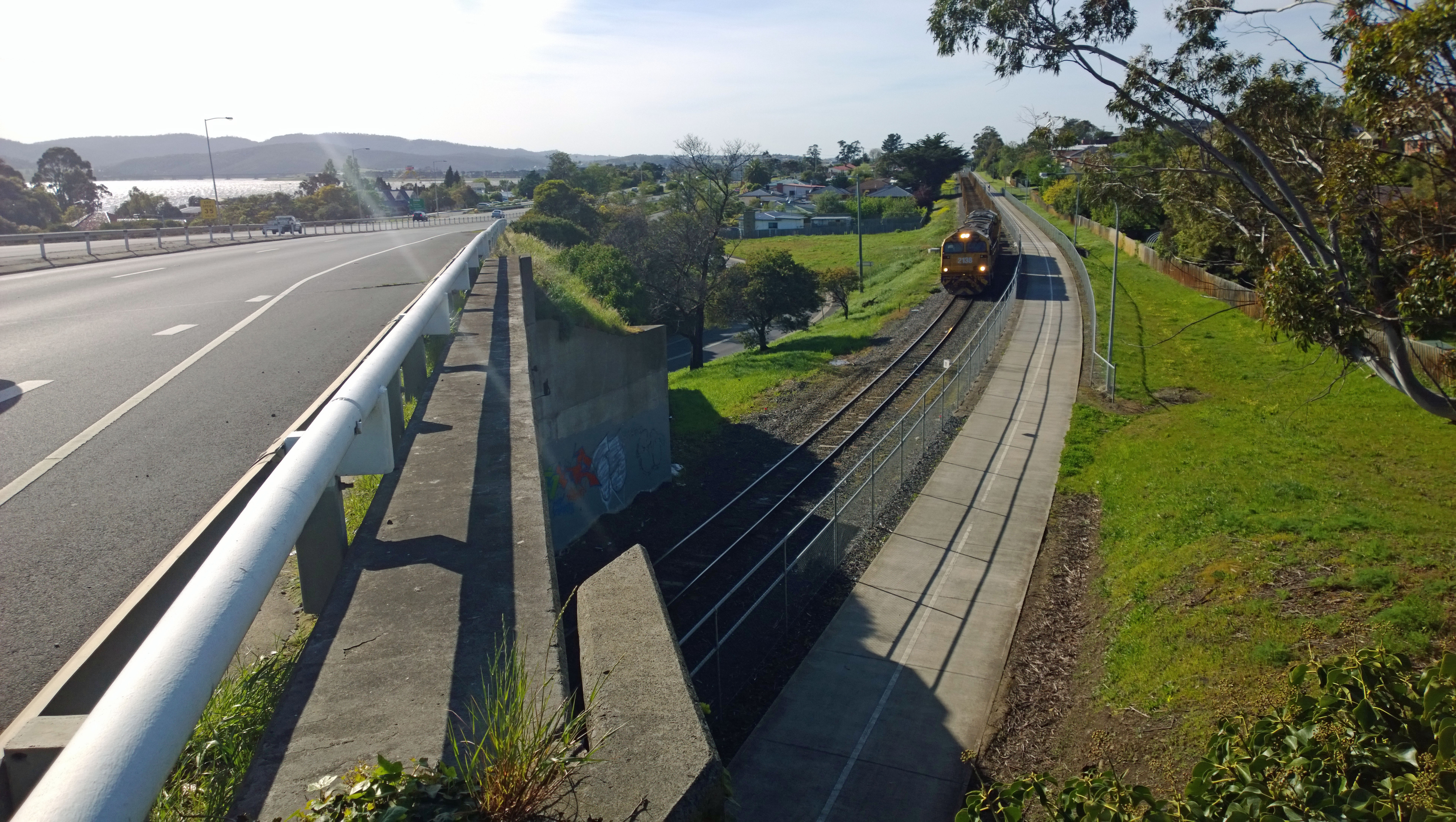 A train passing under the Brooker Highway on the South Line. The Bowen Bridge visible in the background